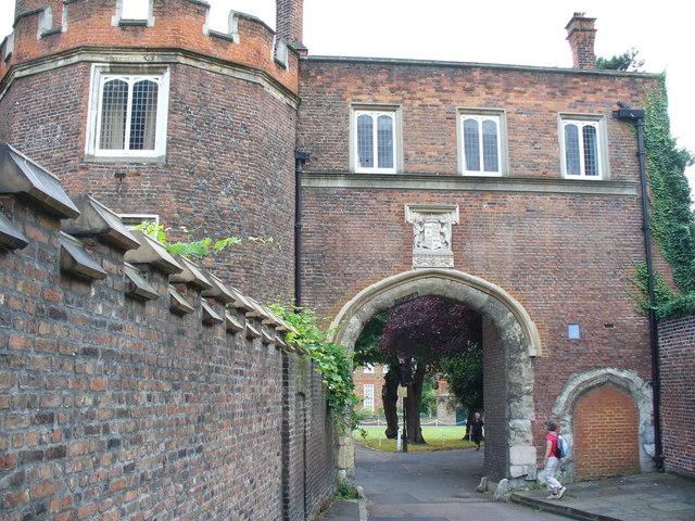 Fragment of the Old Palace, Richmond Leading from Richmond Green, this was the gateway into the Tudor Palace.